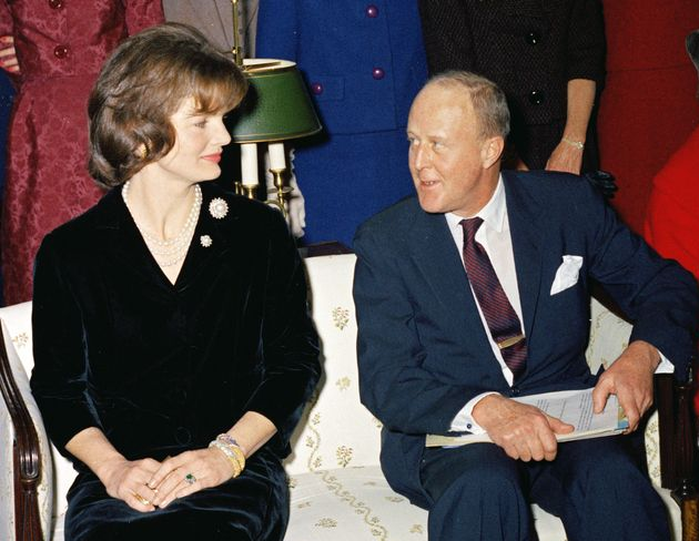 First Lady Jacqueline Kennedy with artist and collecter James W. Fosburgh; Green Room, White House, Washington, D.C.)